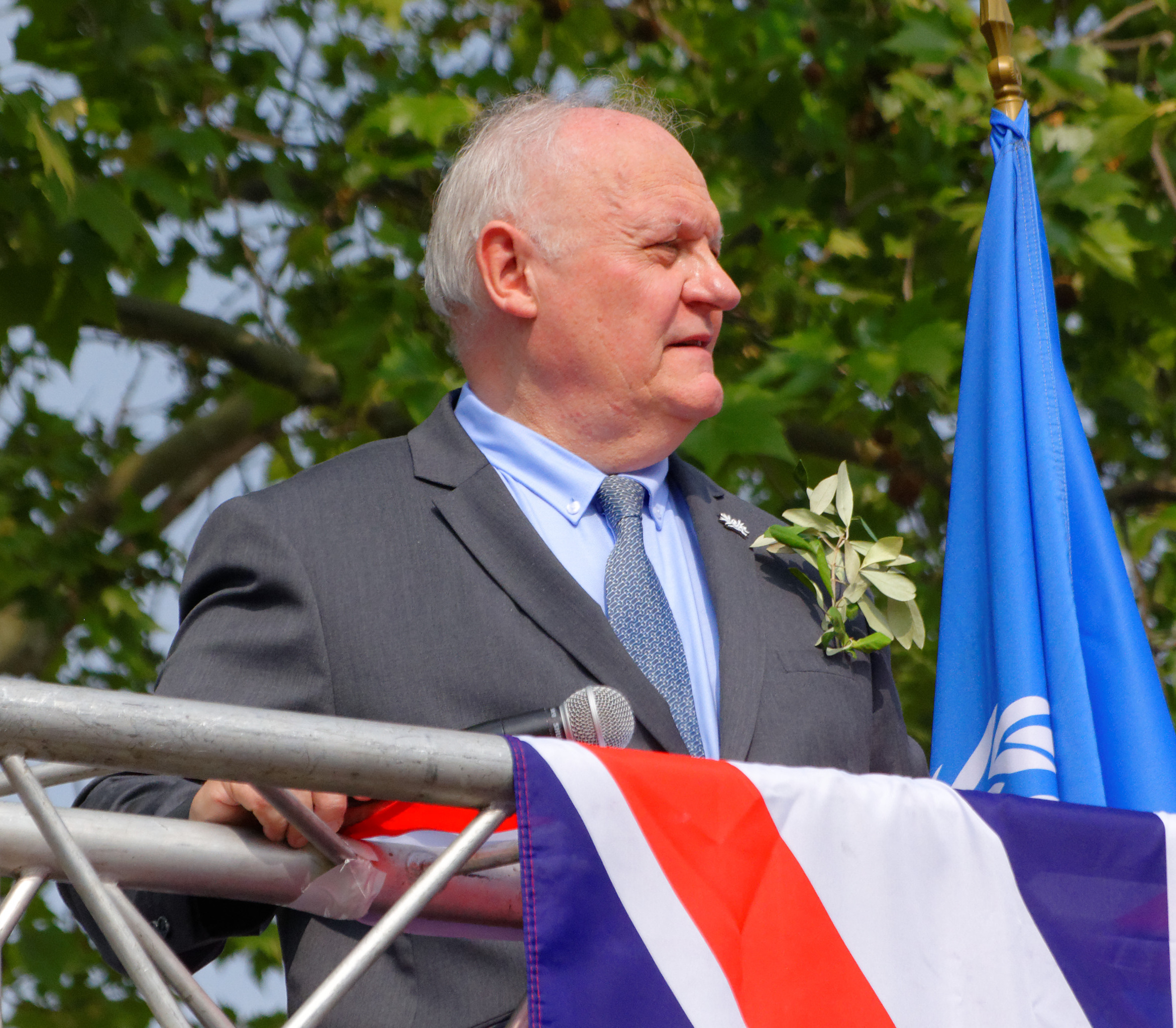 Personality rights warningAlthough this work is freely licensed or in the public domain, the person(s) shown may have rights that legally restrict certain re-uses unless those depicted consent to such uses. In these cases, a model release or other evidence of consent could protect you from infringement claims.